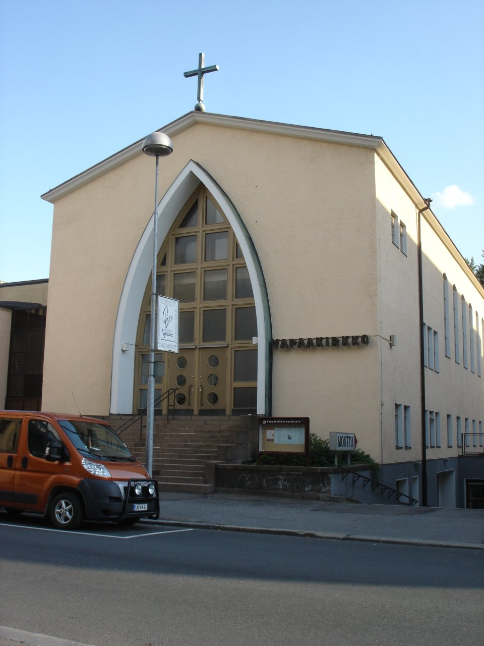 Free church in Tampere